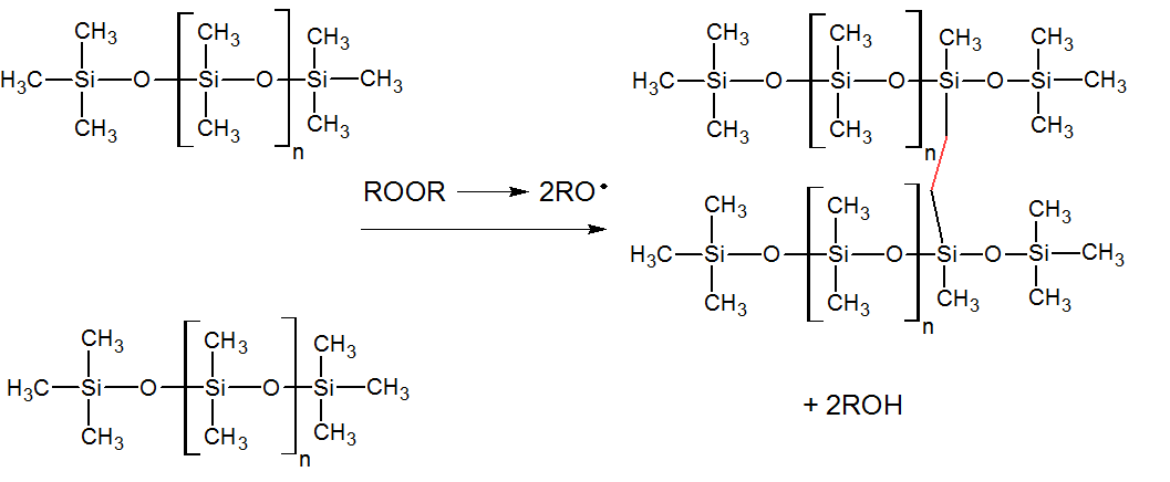 chem